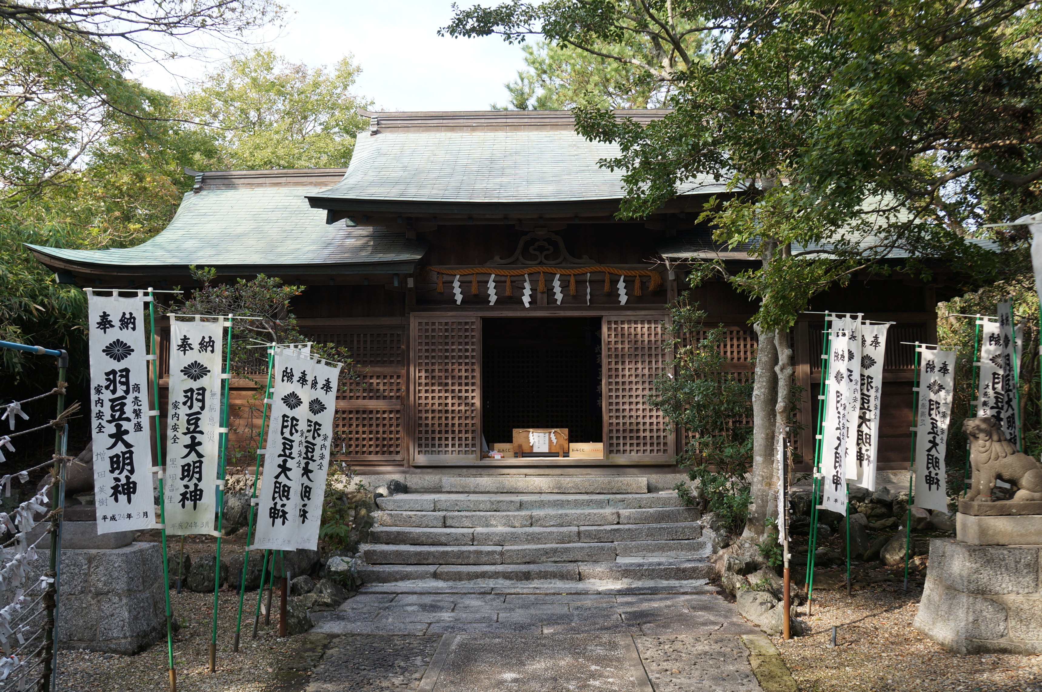 Hazu Shrine in Minamichita Town, Aichi Prerecture